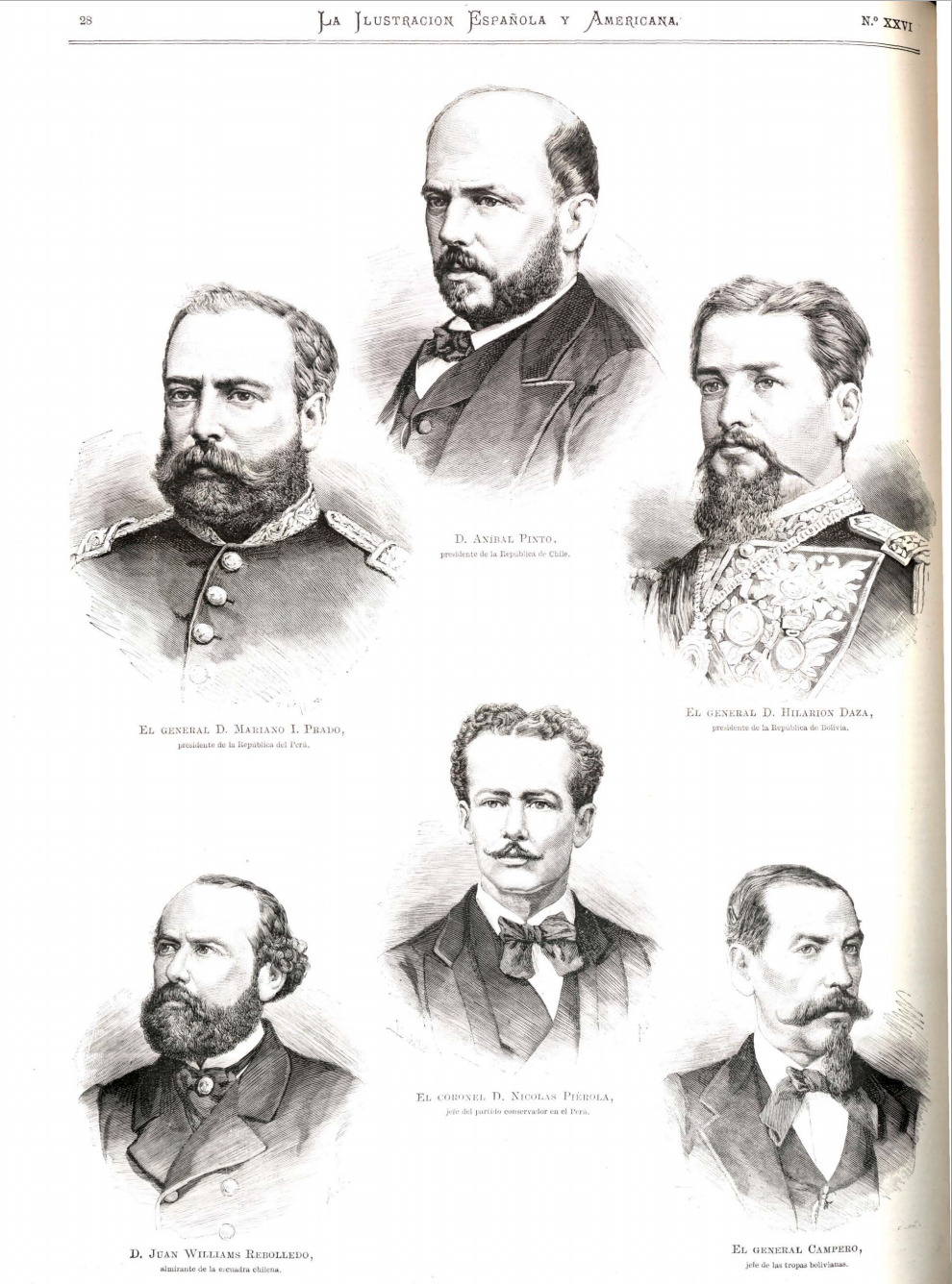 Anibal Pinto, Prado, Daza, Campero, Williams Rebolledo, Pierola